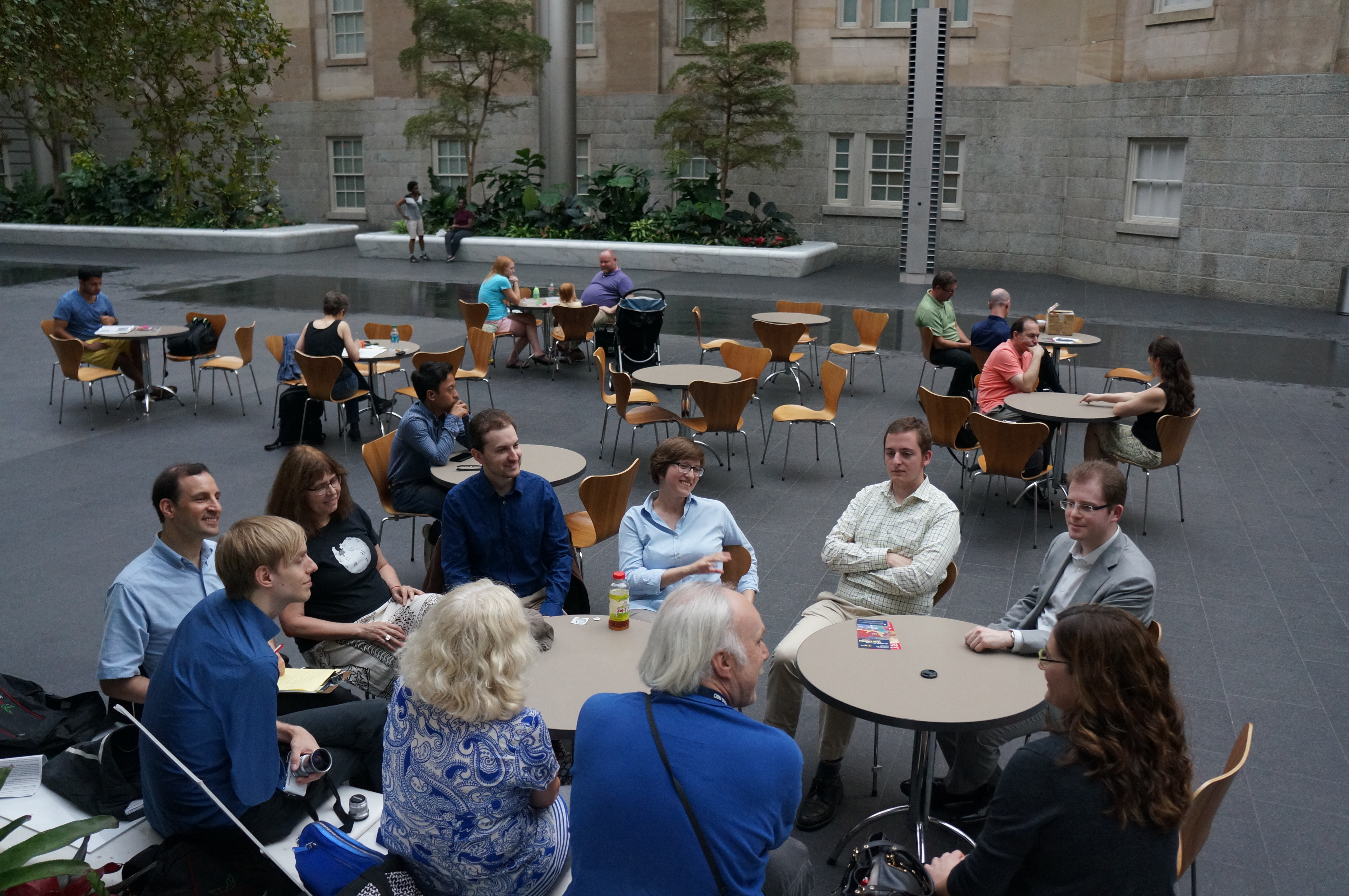 On July 28, 2015, Julia Reda and members of Wikimedia DC discussed copyright reform, the EU Parliament, and USA efforts.